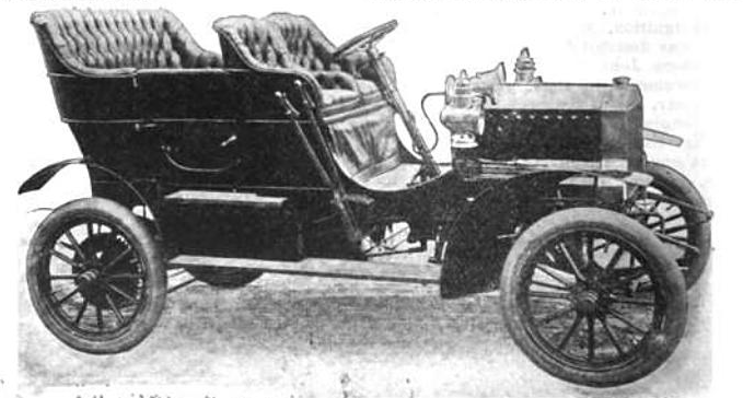 1906 Lambert automobile model 5